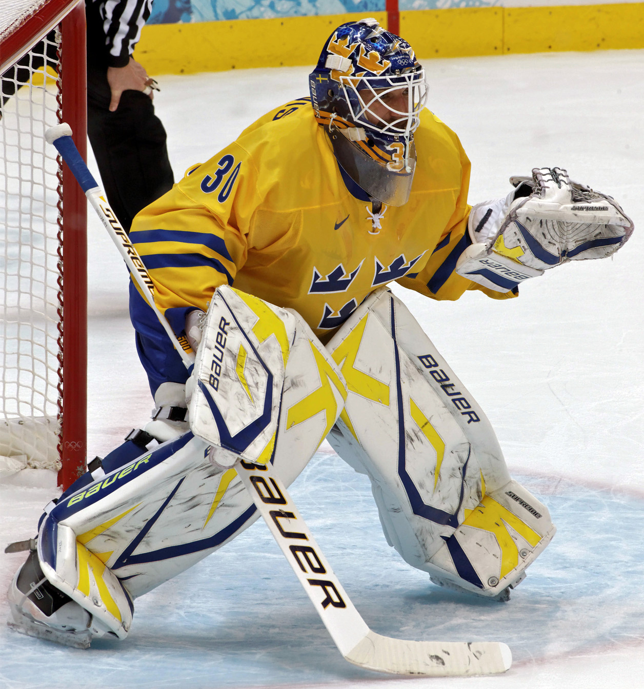 Sweden goaltender Henrik Lundqvist in action against Slovakia during the 2010 Winter Olympics